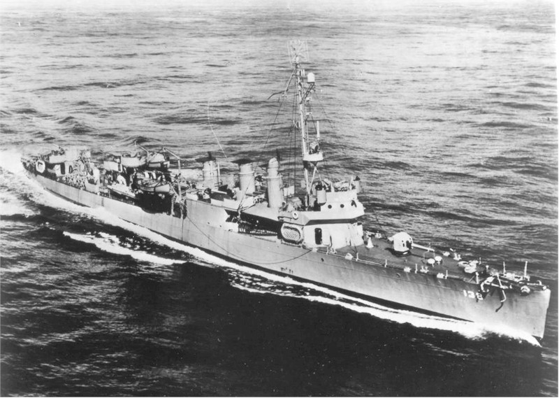 The U.S. Navy destroyer USS Kennison (DD-138) underway at sea, circa in 1944.